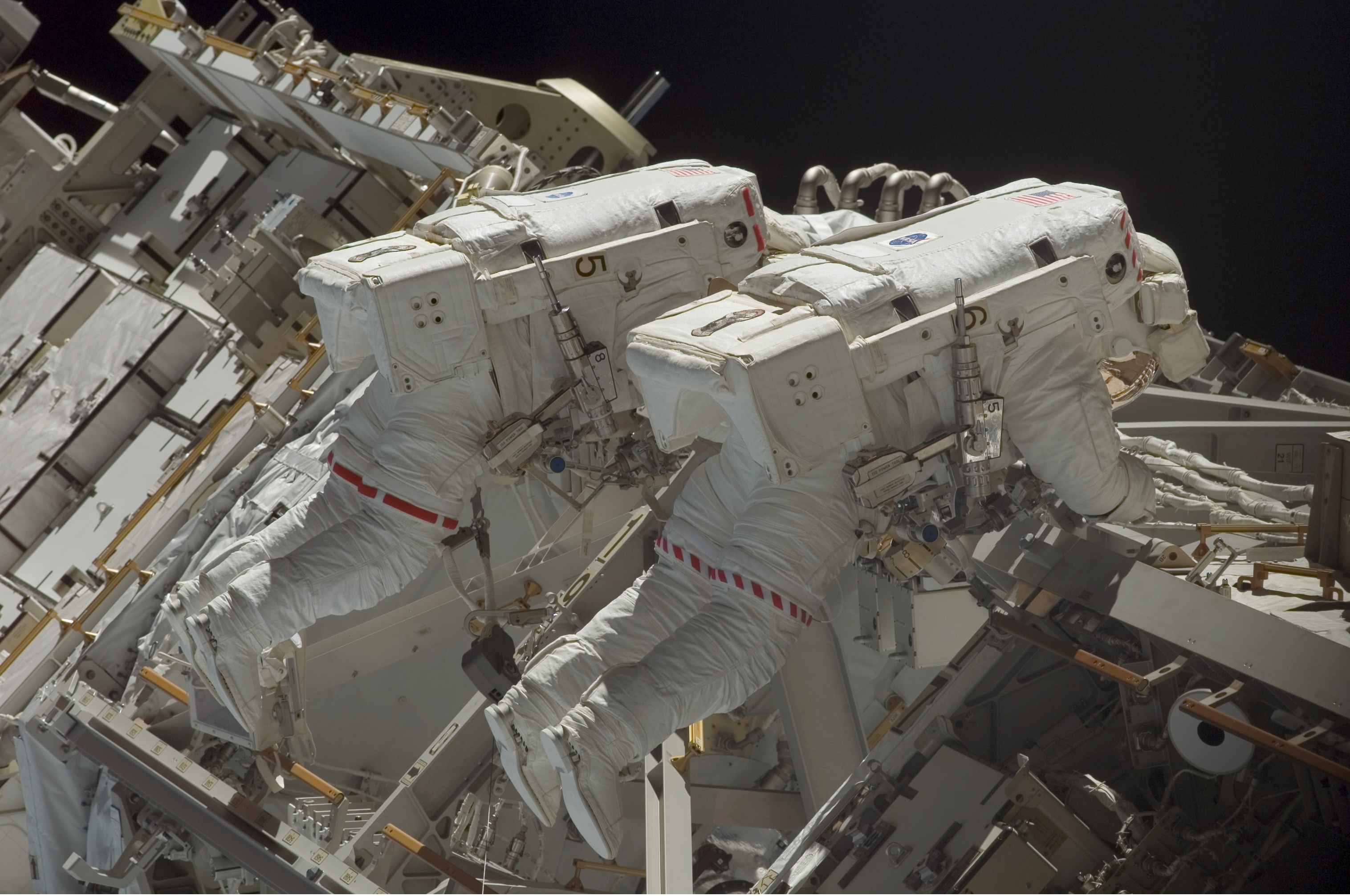 Astronauts Patrick Forrester (left) and Steven Swanson, both STS-117 mission specialists, participate in the mission's fourth and final session of extravehicular activity (EVA), as construction continues on the International Space Station. Among other tasks, Forrester and Swanson continued activation of the station's new starboard 3 and 4 (S3/S4) truss segment; checked out the Drive Lock Assembly 2, one of two mechanisms that will drive rotation of the S3/S4 Truss Solar Alpha Rotary Joint (SARJ); and removed the final launch restraints on the SARJ.